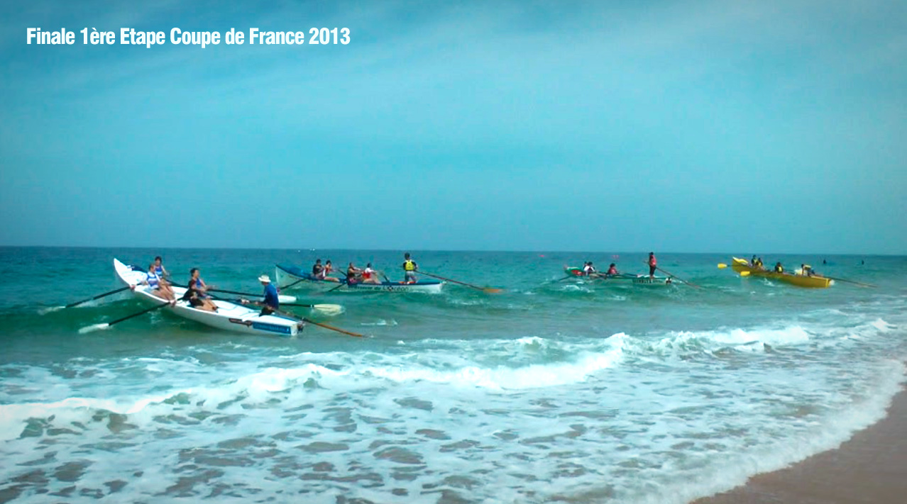 Surfboat French Cup 2013.